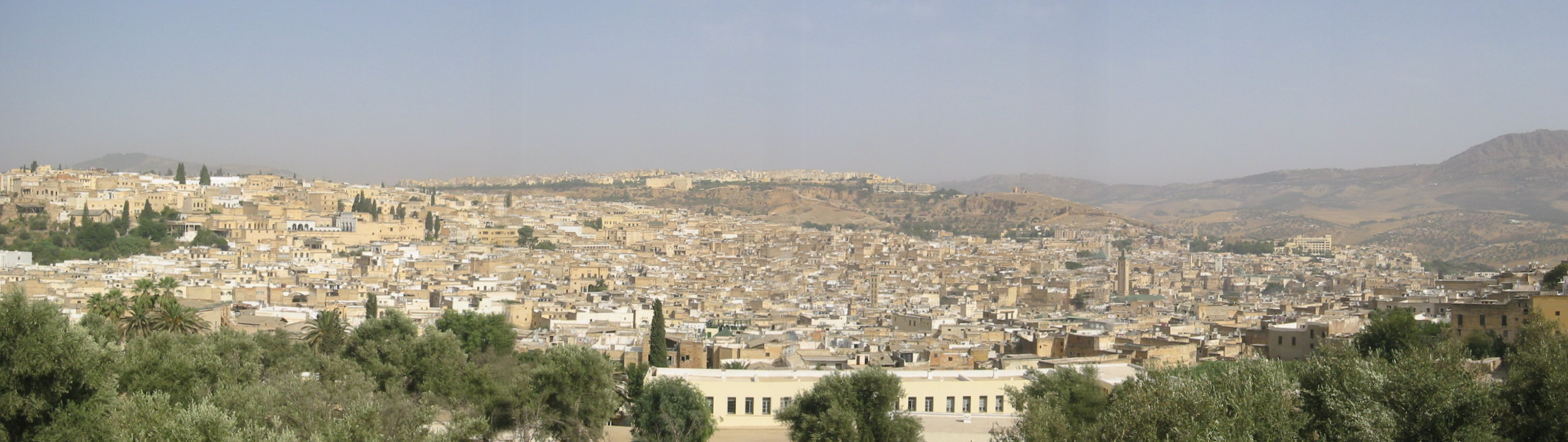 Panoramic view over Fes' Old town.